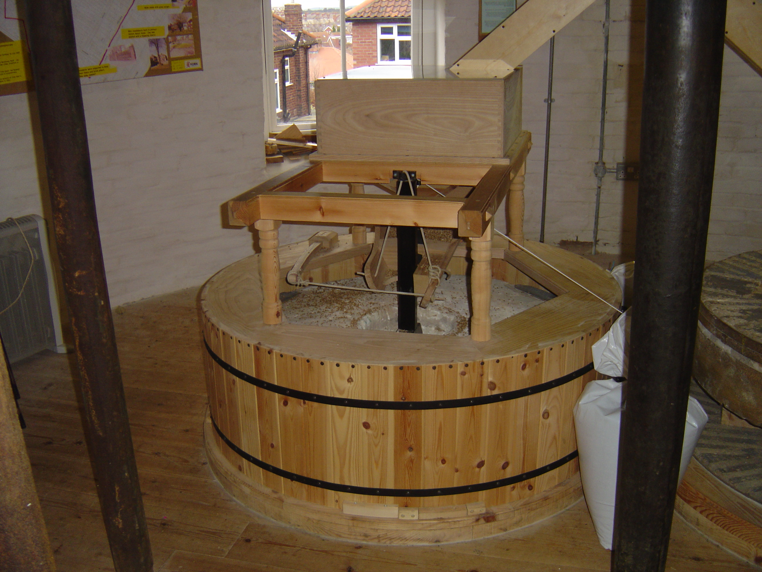 Millstones inside Holgate Windmill, York, England